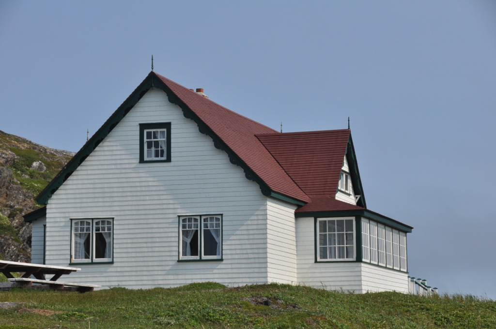 Grenfell Cottage Registered Heritage Structure, Battle Harbour, Labrador.